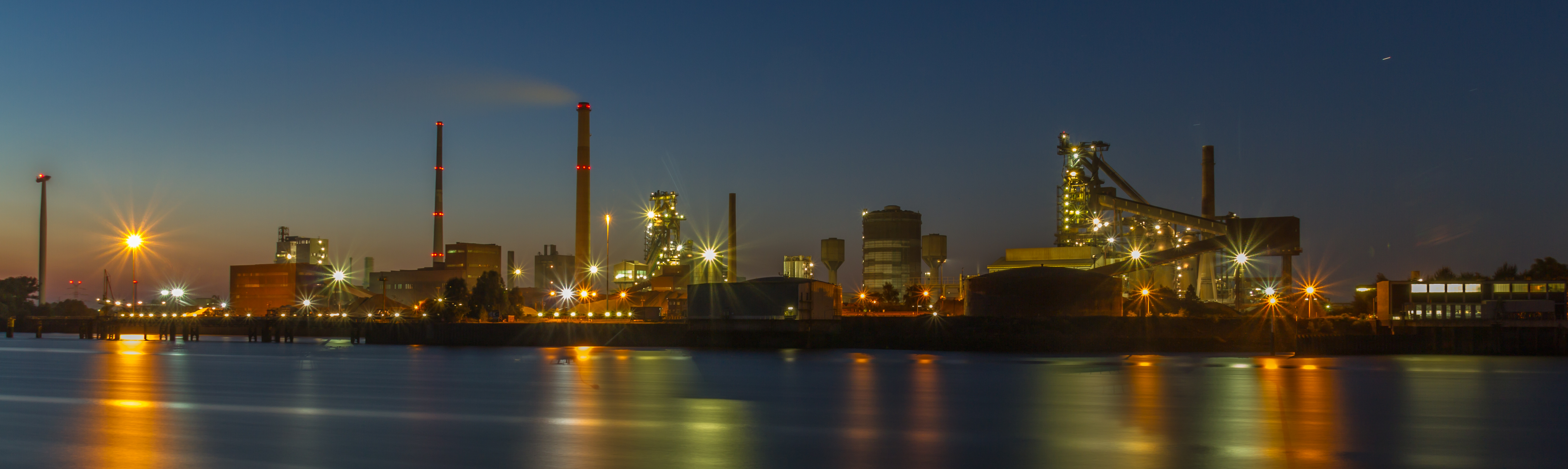 ArcelorMittal Bremen at night